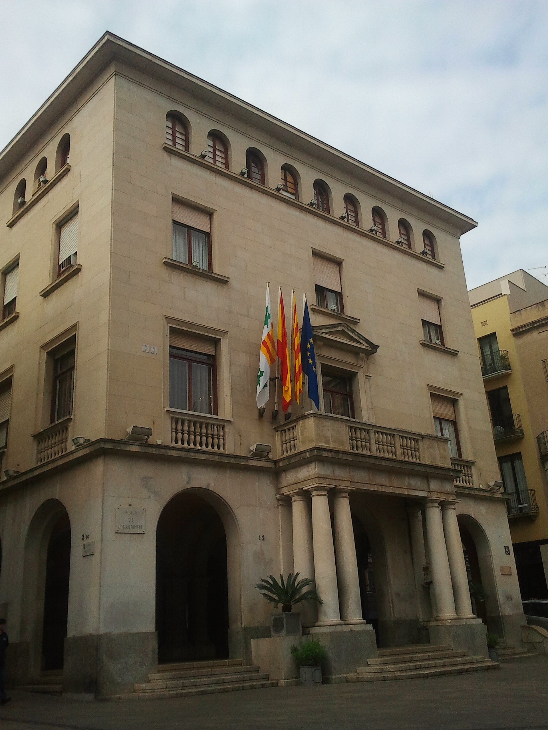 The town hall of Figueres.